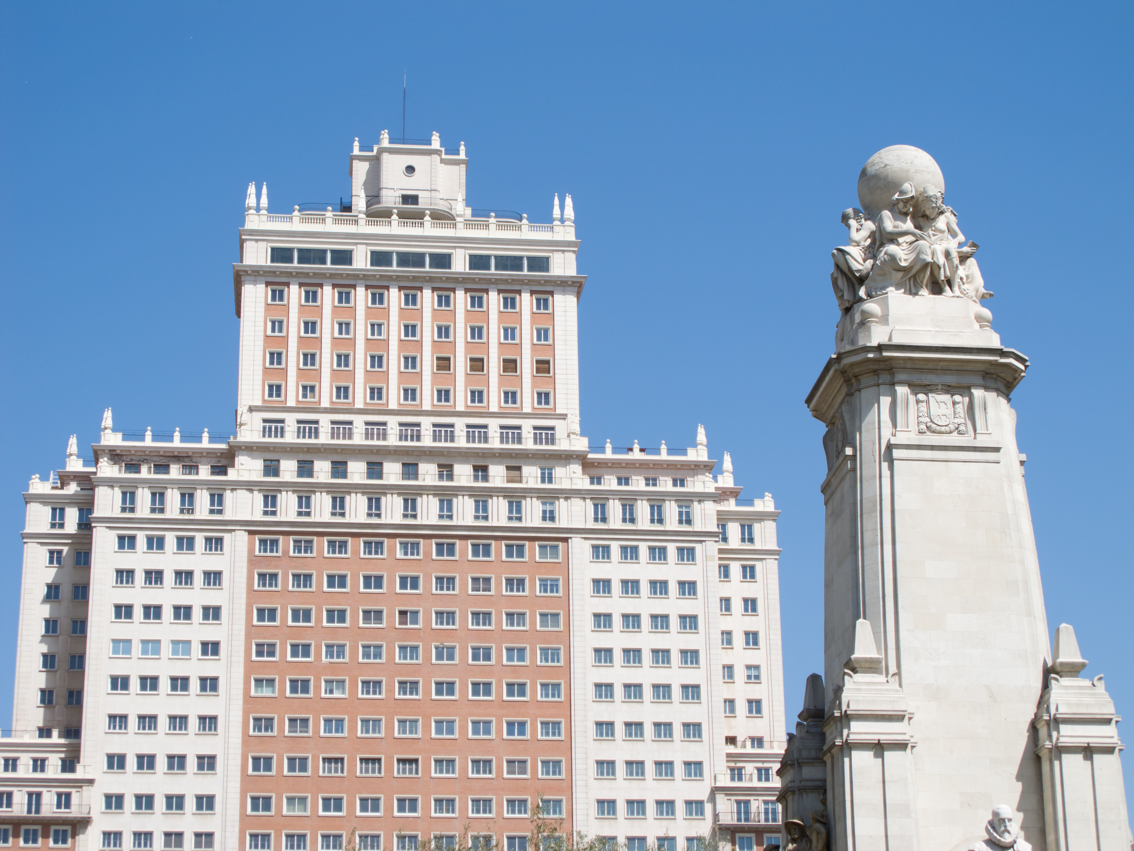 Top of the monument to Miguel de Cervantes and España Building, Madrid, Spain.